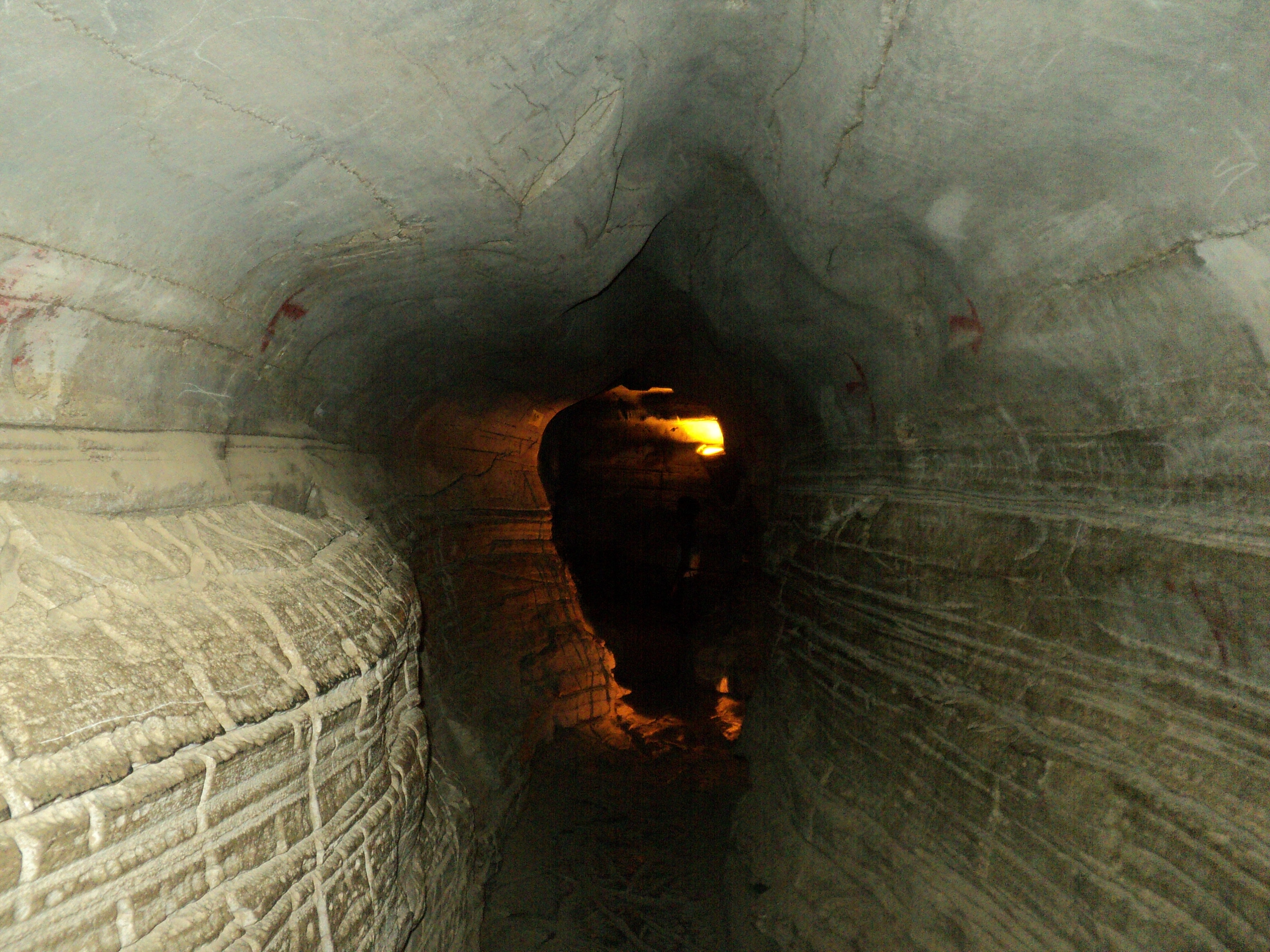 Deep passages inside Belum cave